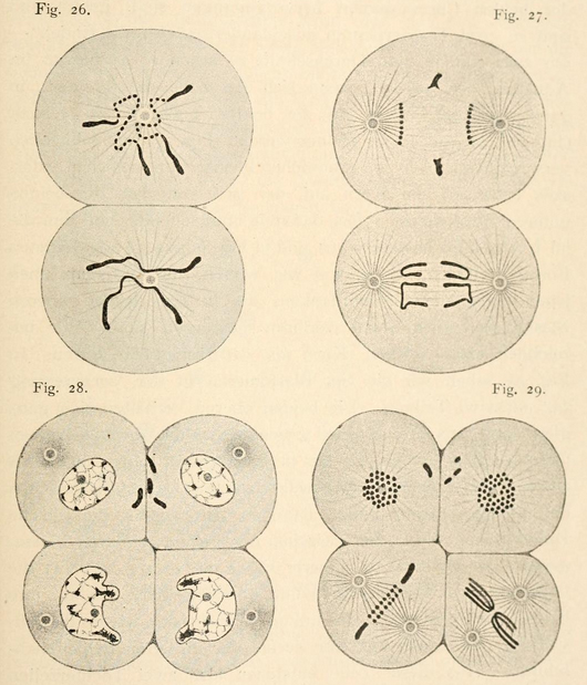 The schematic picture of chromatin diminution during early cleavage stage in Ascaris megalocephala univalens